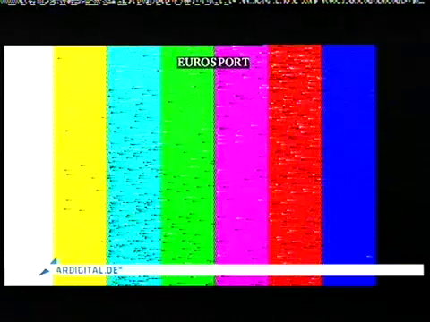 Test pattern on EuroSport channel before shutdowning. Only after 11 seconds showing this test pattern, channel was closed.